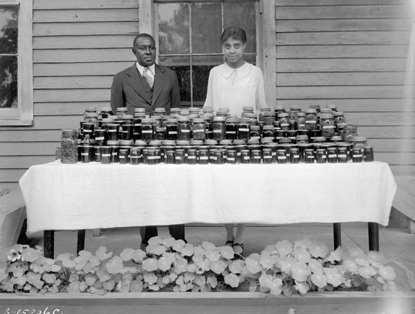 "Negro family budget of canned fruits and vegetables. (Mr. and Mrs. J.E. Bryan) expert canners in their community" By George W. Ackerman, Robeson County, North Carolina, May 20, 1932 National Archives and Records Administration, Records of the Extension Service (33-SC-15906c) [VENDOR # 61]